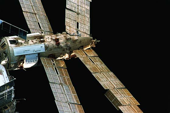 View of Spektr (module of Mir space station) during STS-79 mission.